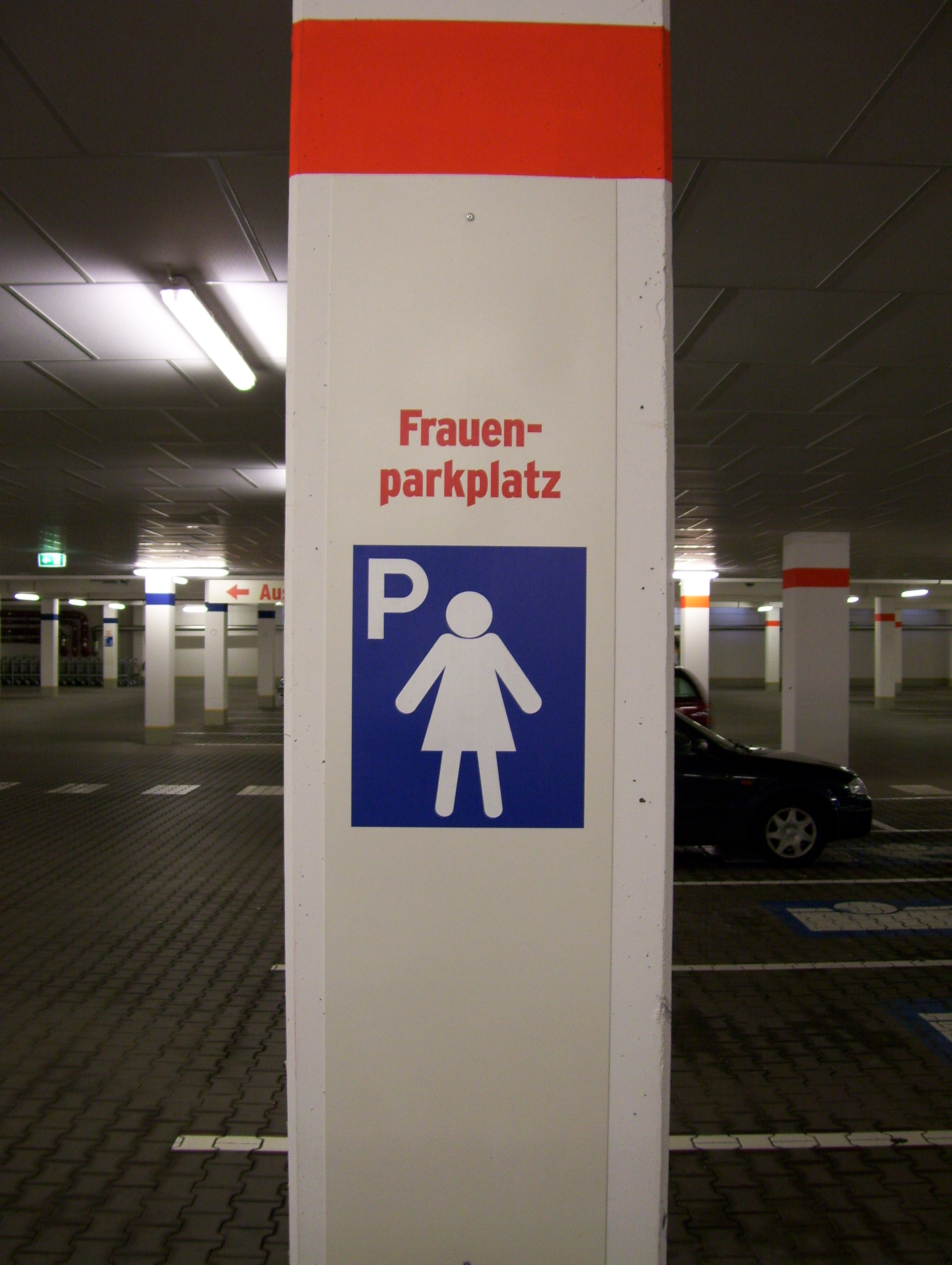 Parking exclusively for women